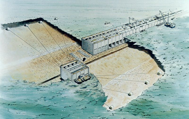 Construction method from the Severn Barrage.